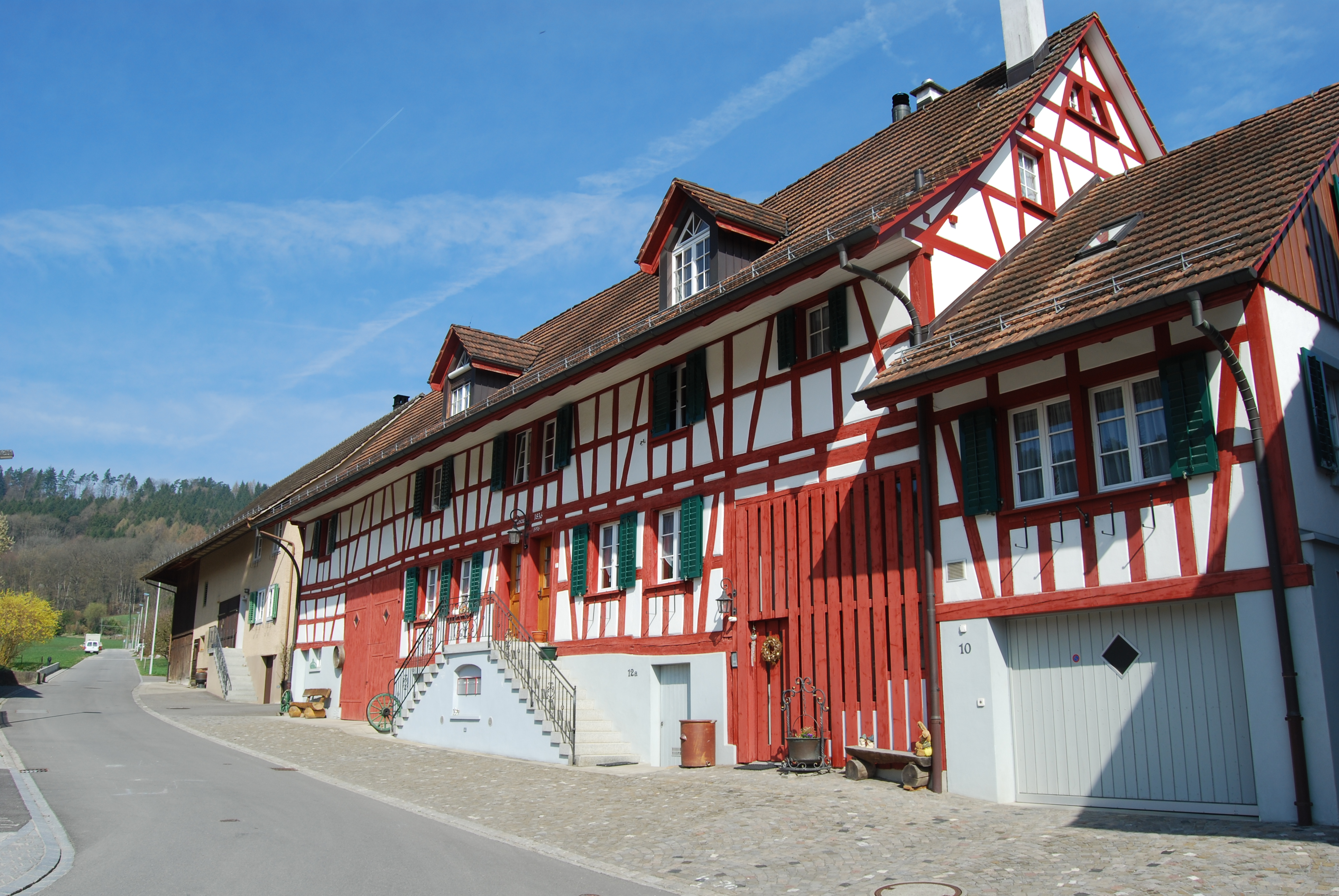 Timber framing house at Hüntwangen, canton of Zürich, Switzerland